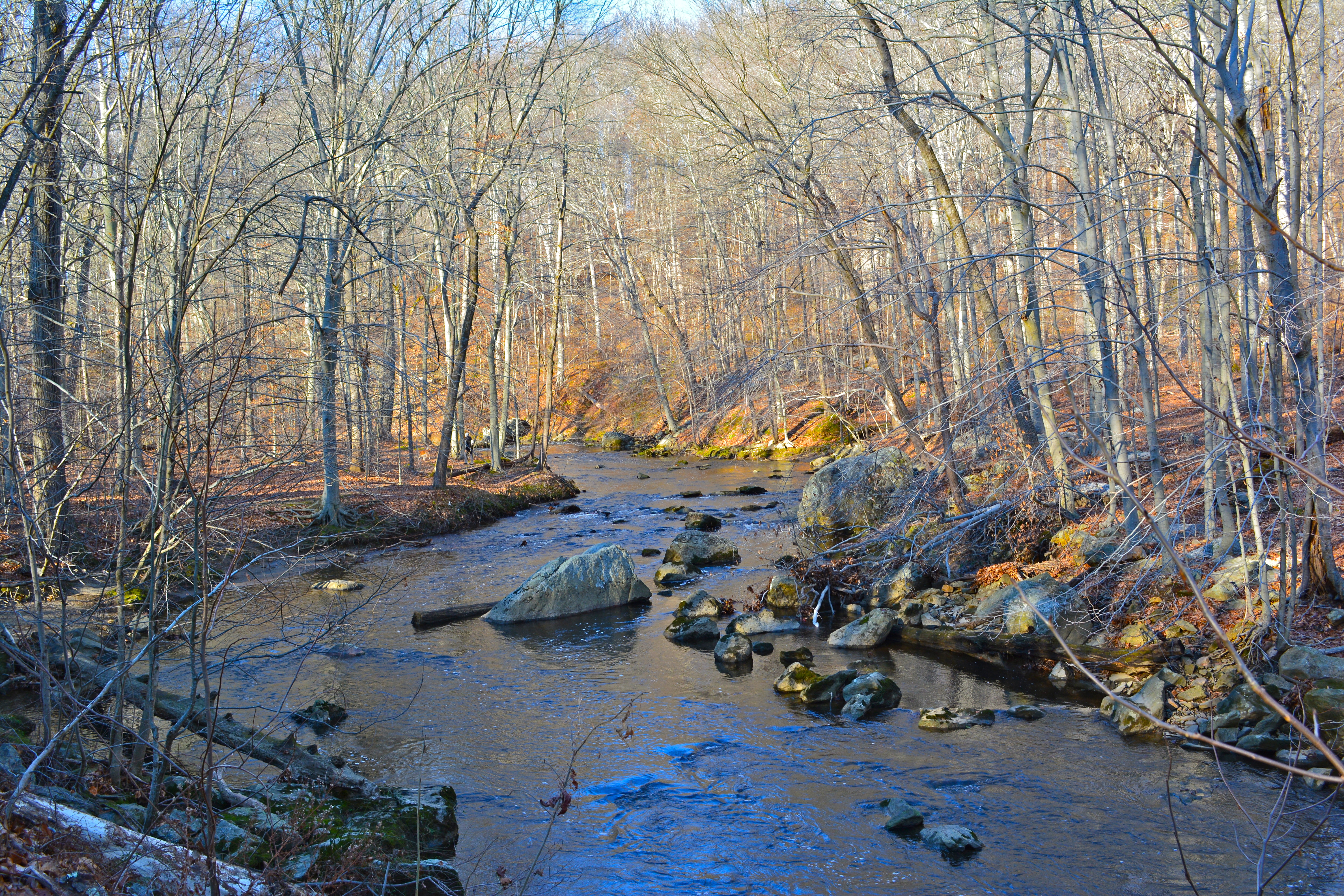 Ridley Creek in Ridley Creek State Park. Park added to the NRHP on October 8, 1976. Located northwest of Media between Pennsylvania Routes 3 and 352.